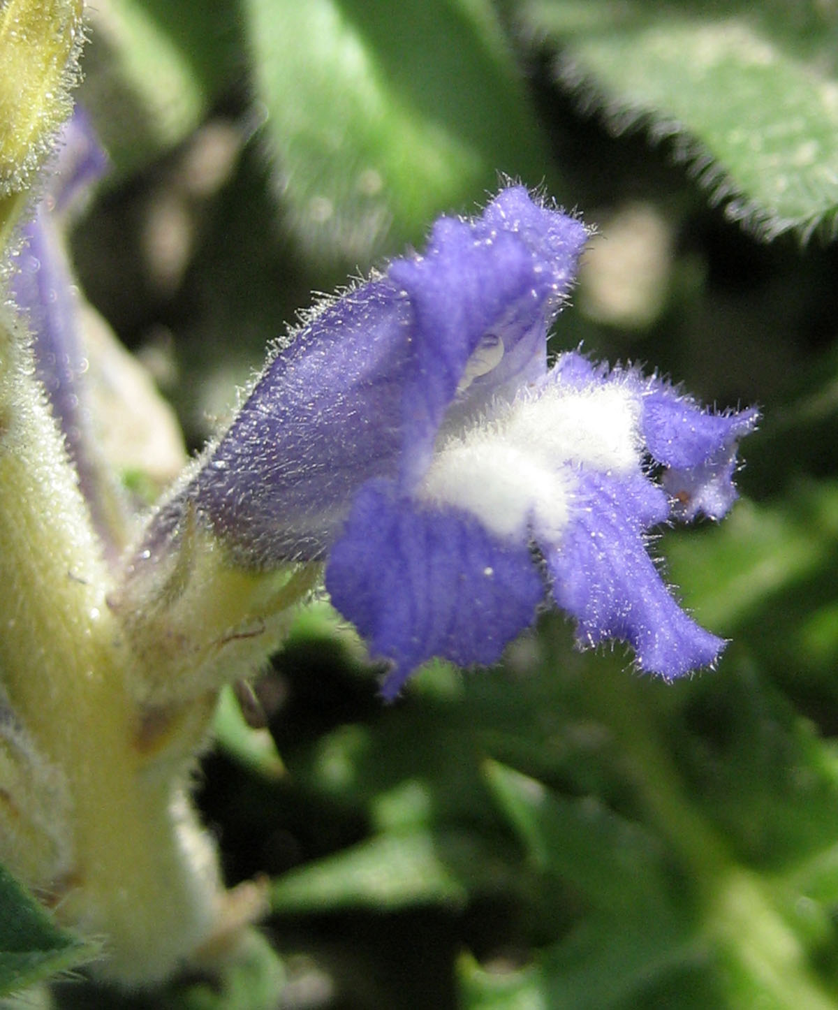 Orobanche ramosa. Silifke, Mersin province, Turkey, growing near old walls of Silifke castle.